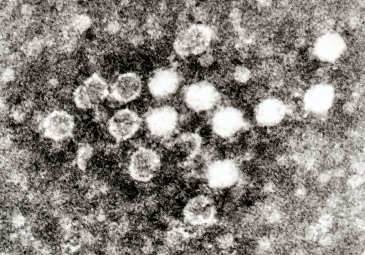 Electron micrograph of negatively stained Parvovirus B19 in blood. Each virus particle is about 25 to 30nM in diameter.